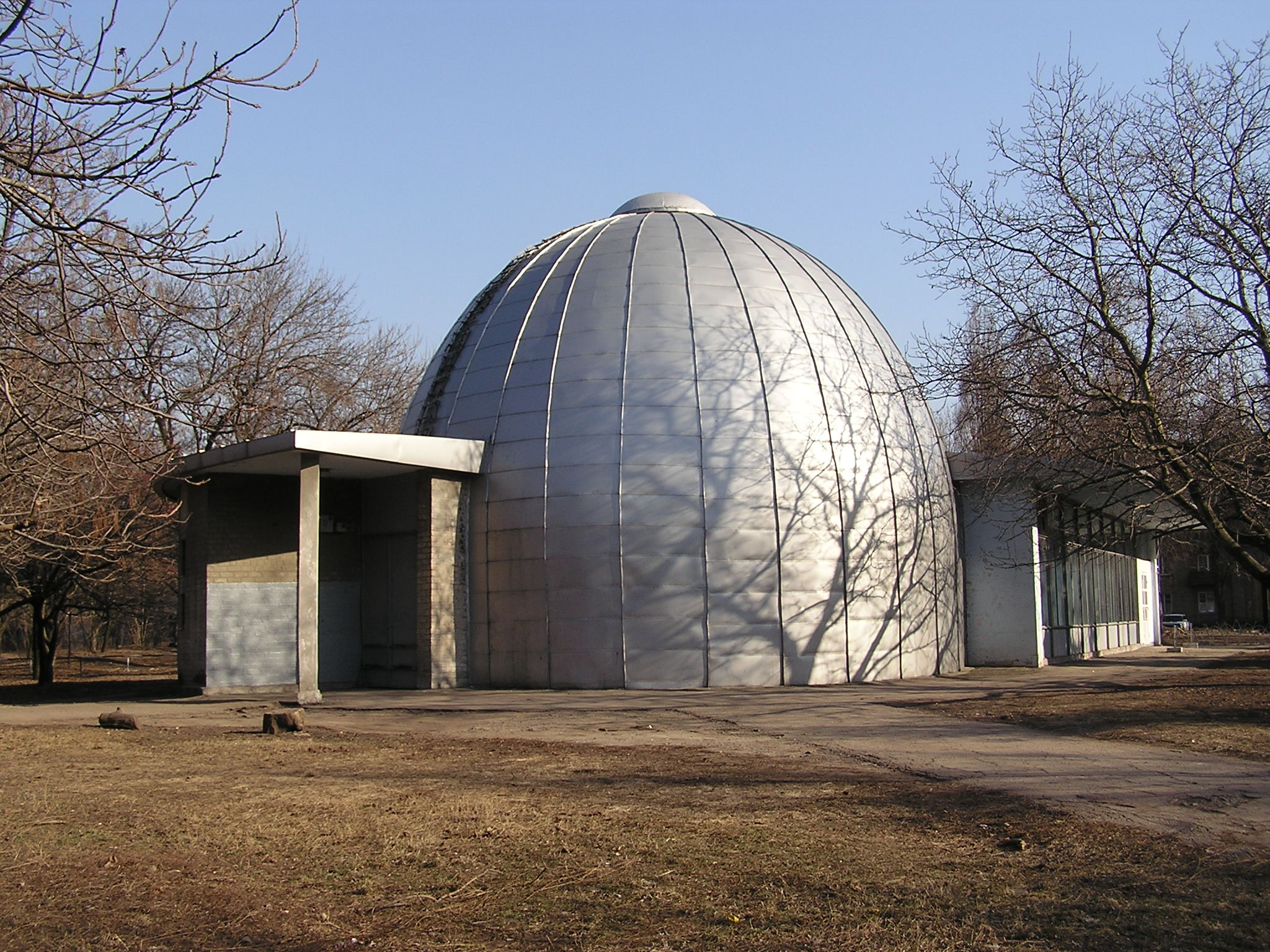 Planetarium in Donetsk